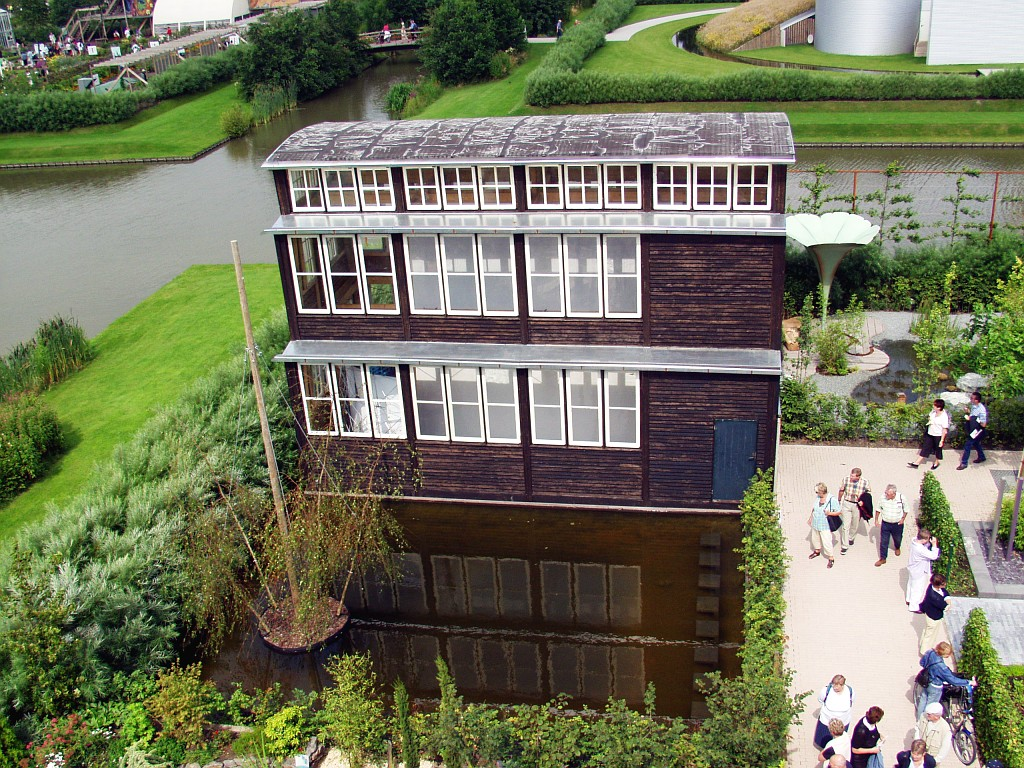 Impressions of Floriade 2002